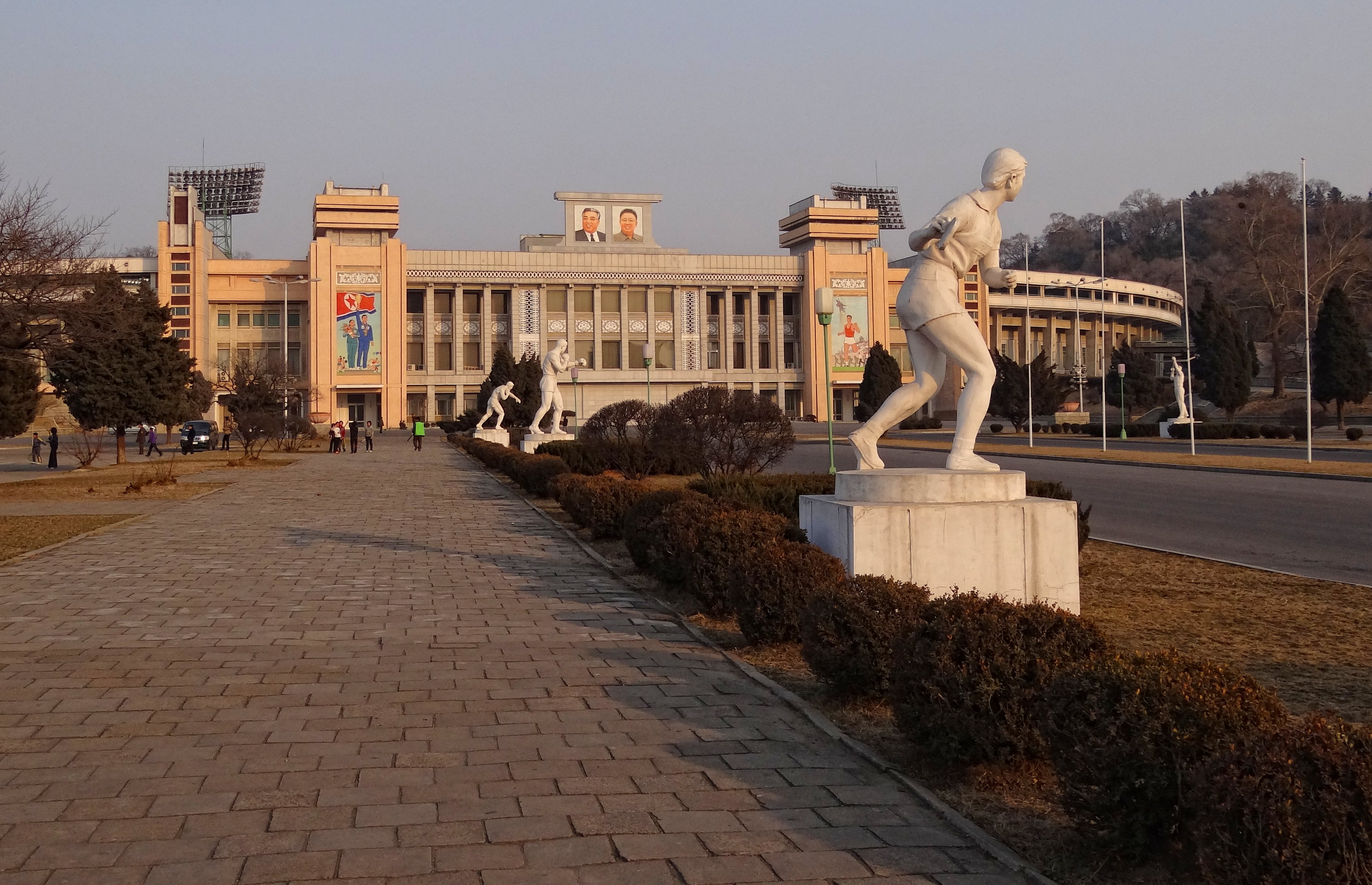 Kim Il-sung Stadium in Pyongyang, North Korea, photographed at sunset in March from the west, near the base of the Arch of Triumph.